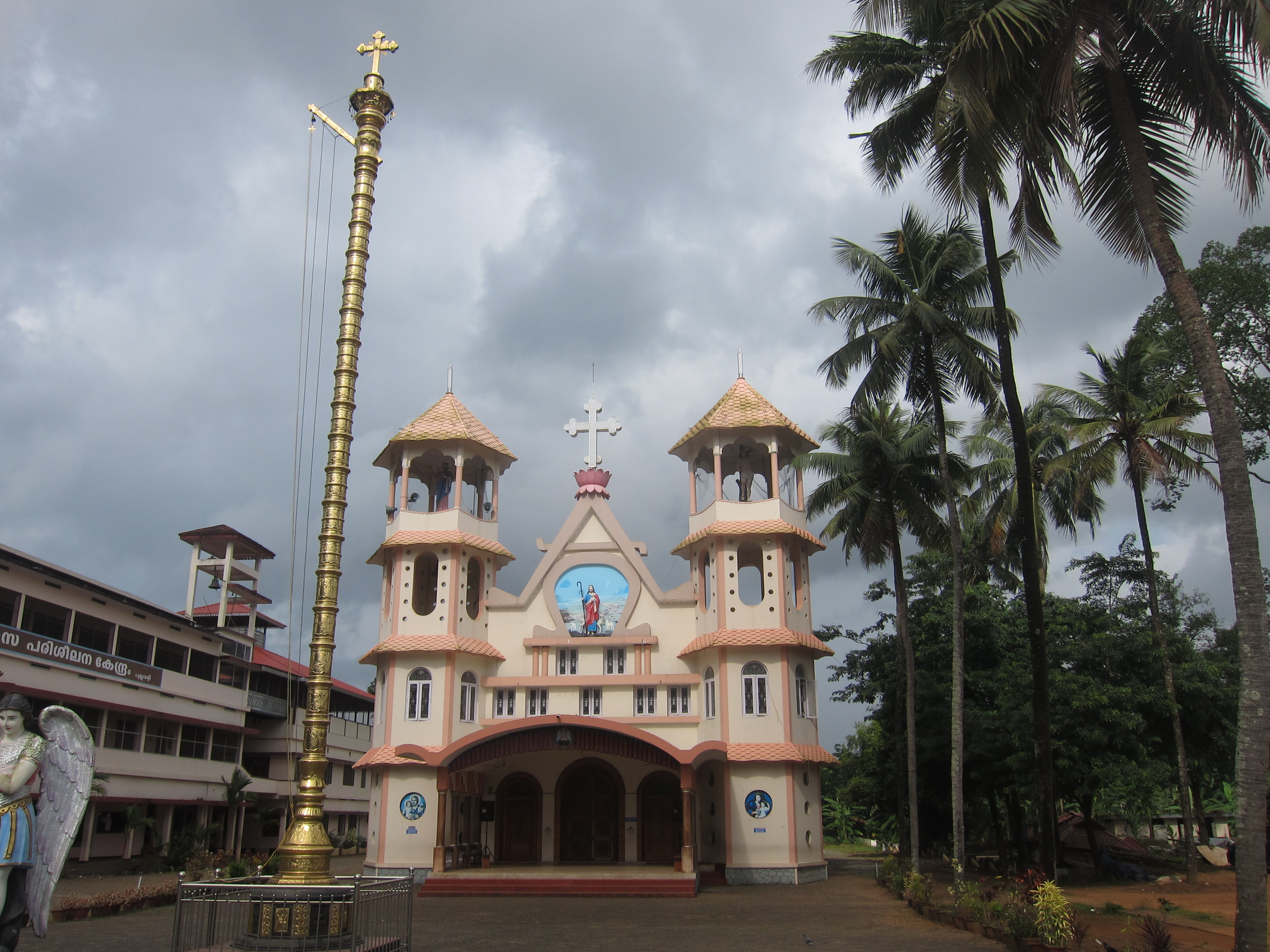 St: Thomas Church, Pulluvazhy സെന്റ് തോമസ് ചർച്ച്, പുല്ലുവഴി എറണാകുളം അങ്കമാലി അതിരൂപതയുടെ കീഴിൽ...